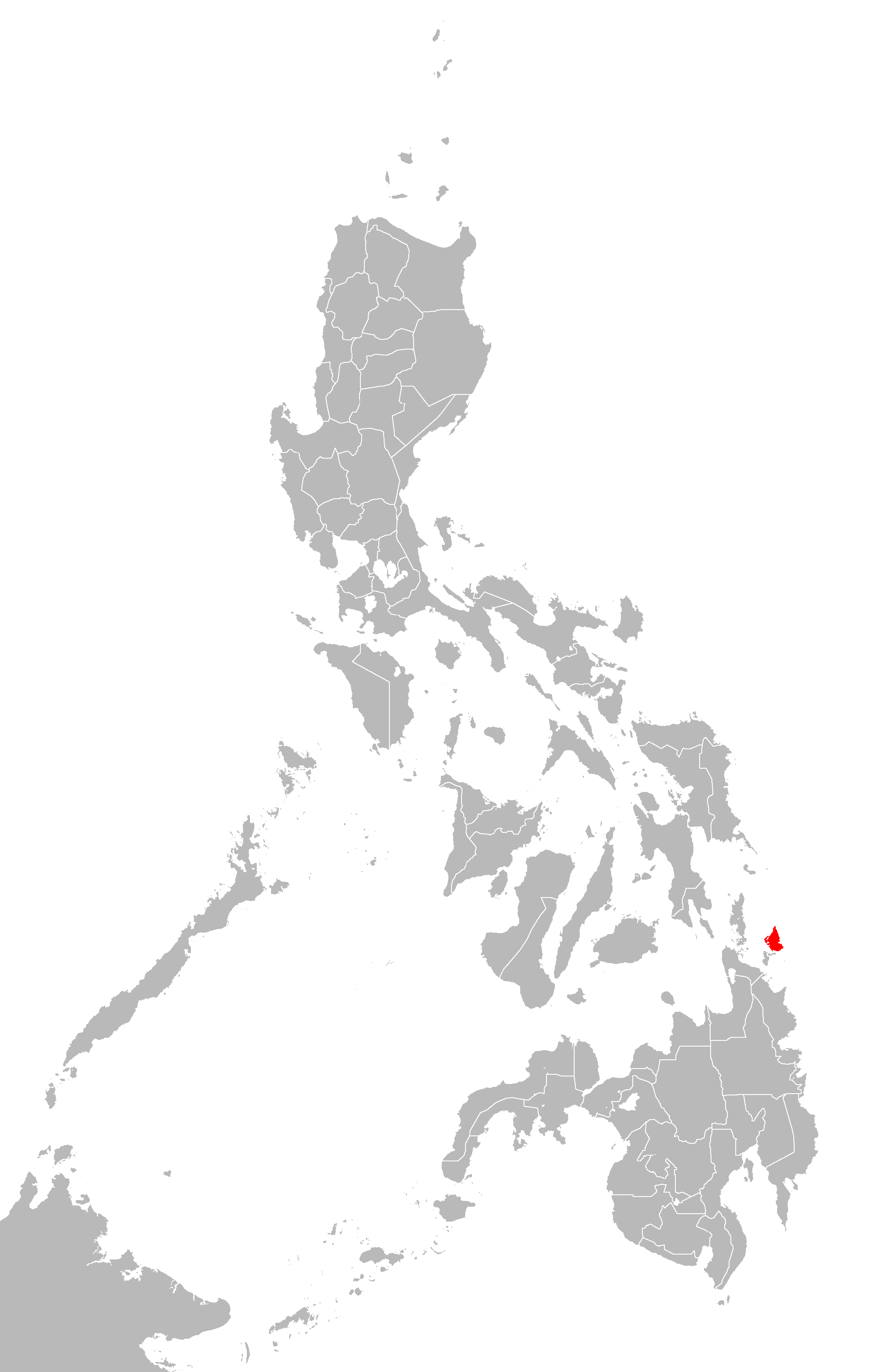 Locator map of Siargao Island.